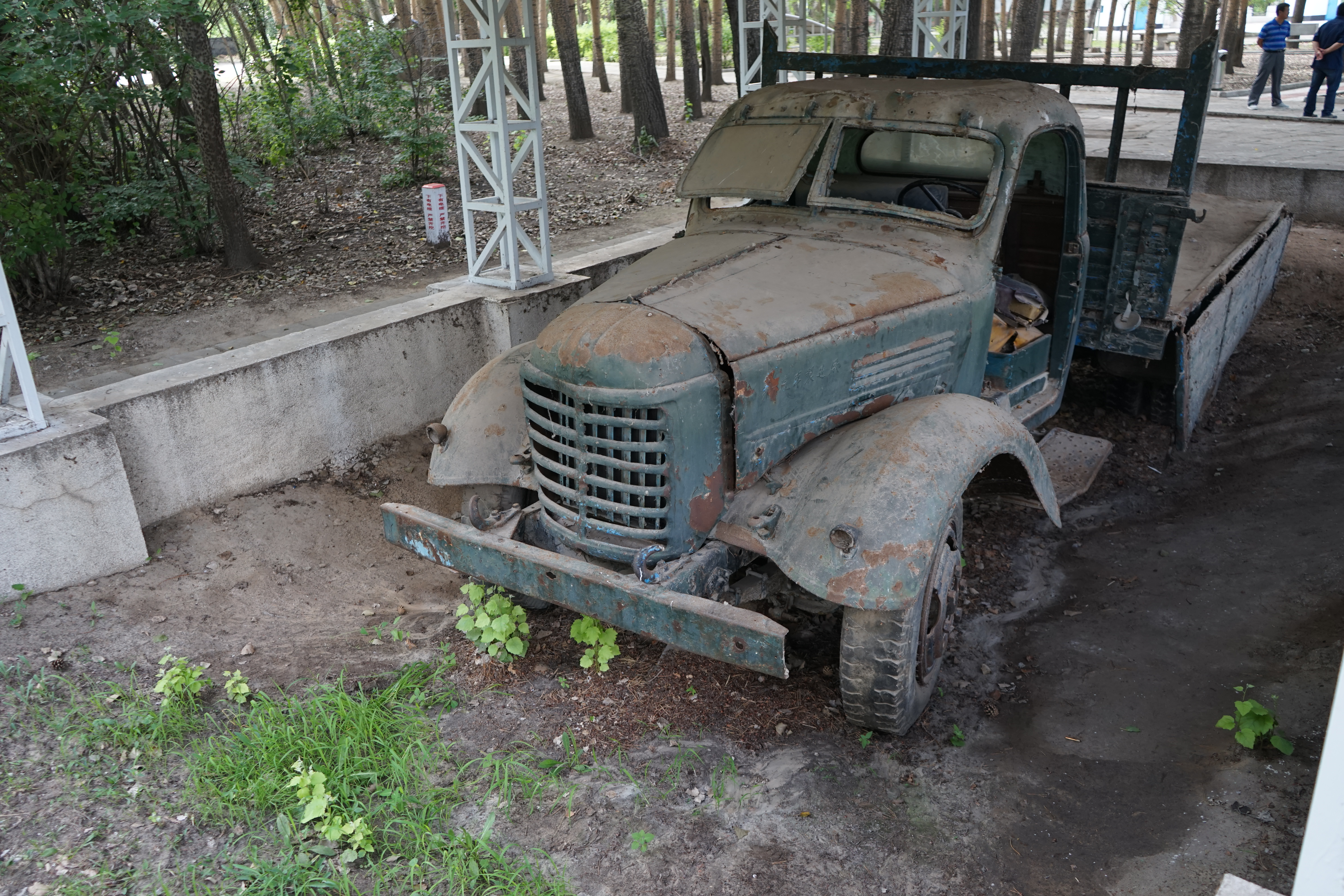 Platform for unloading a vehicle, Well Sa-55 Site. The equipments of drilling rig was transported to the well site, it could not be unloaded without mobile cranes. Wang and others digged a pit. The truck can move in so the platform floor of the truck would be of the equal height with the ground. Wang and some other 30 workers used rollers, coir ropes and crawbars to unload the equipments.